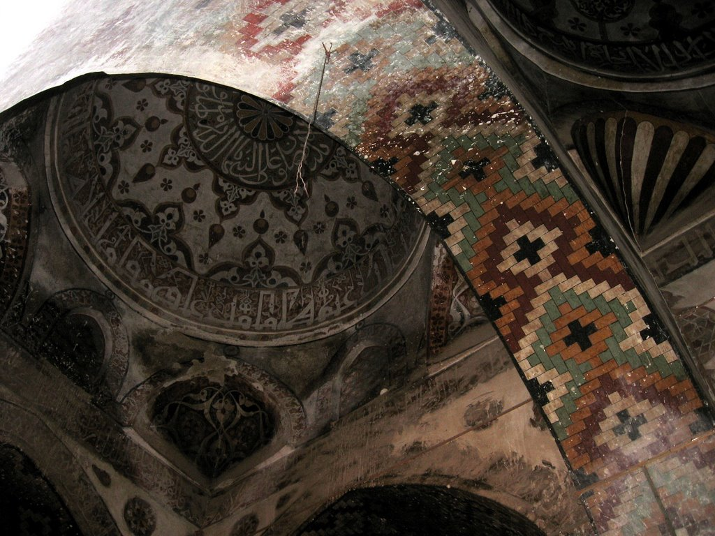 Al-Ashrafiya mosque ceiling in Taizz